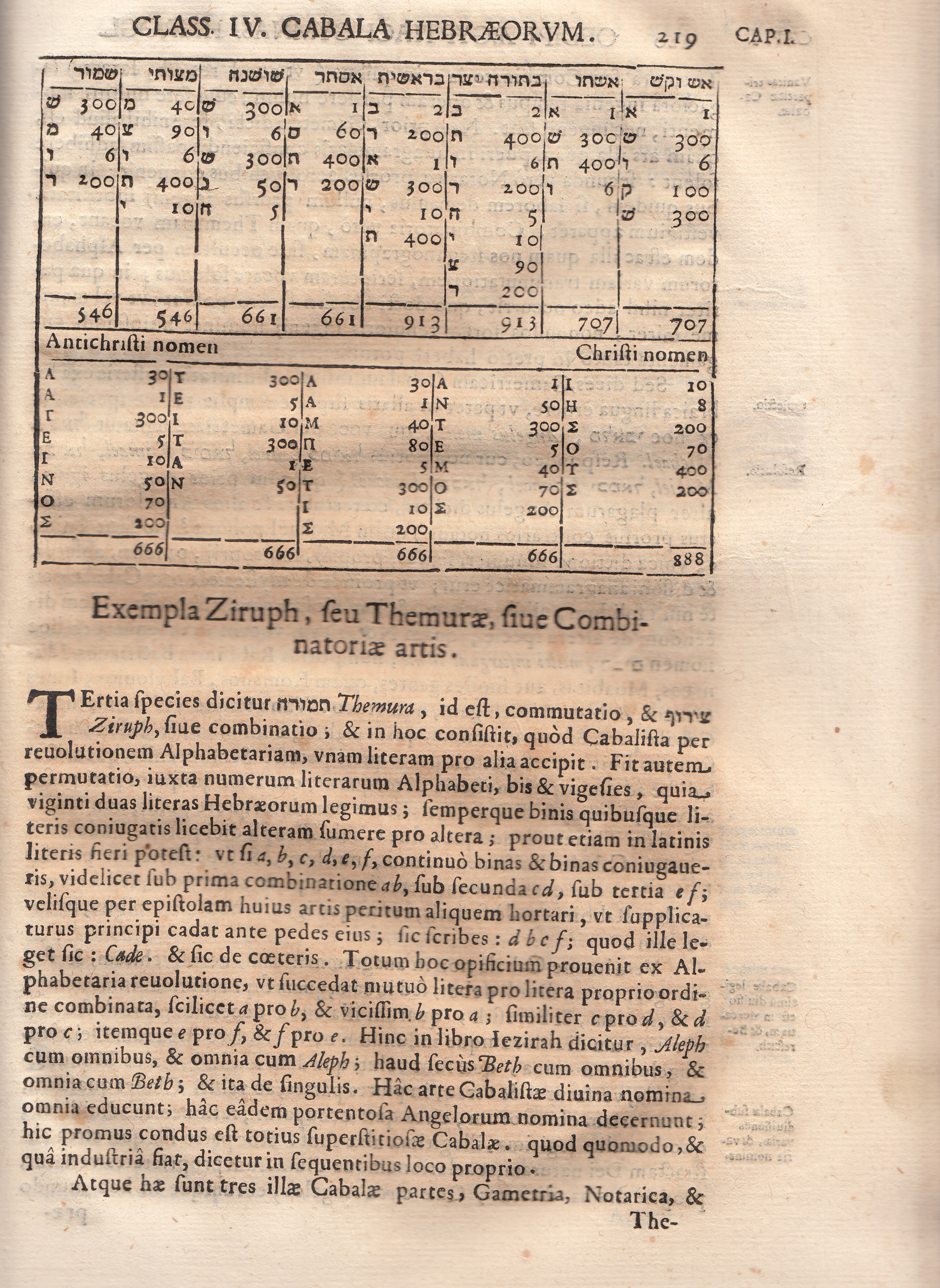 Page 219 of the first part of Vol. II of Athanasius Kircher's "Oedipus Aegyptiacus". In the chapter "Kabbalah of the Hebrews" there are calculations of the Number of the Beast based on various names of the Antichrist (Lateinos, Teitan, Lampetis, Antemos) found in the church fathers Irenaeus and Andreas of Caesarea.